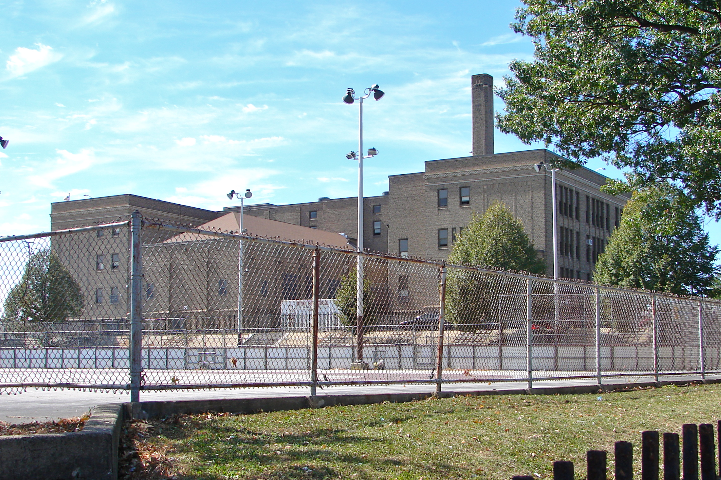 Ethan Allen School in Philadelphia on the NRHP since November 18, 1988. At 3001 Robbins Avenue in the NE Philly neighborhood of Mayfair. This is from the back of the building, but gives a good idea of the buildings size.